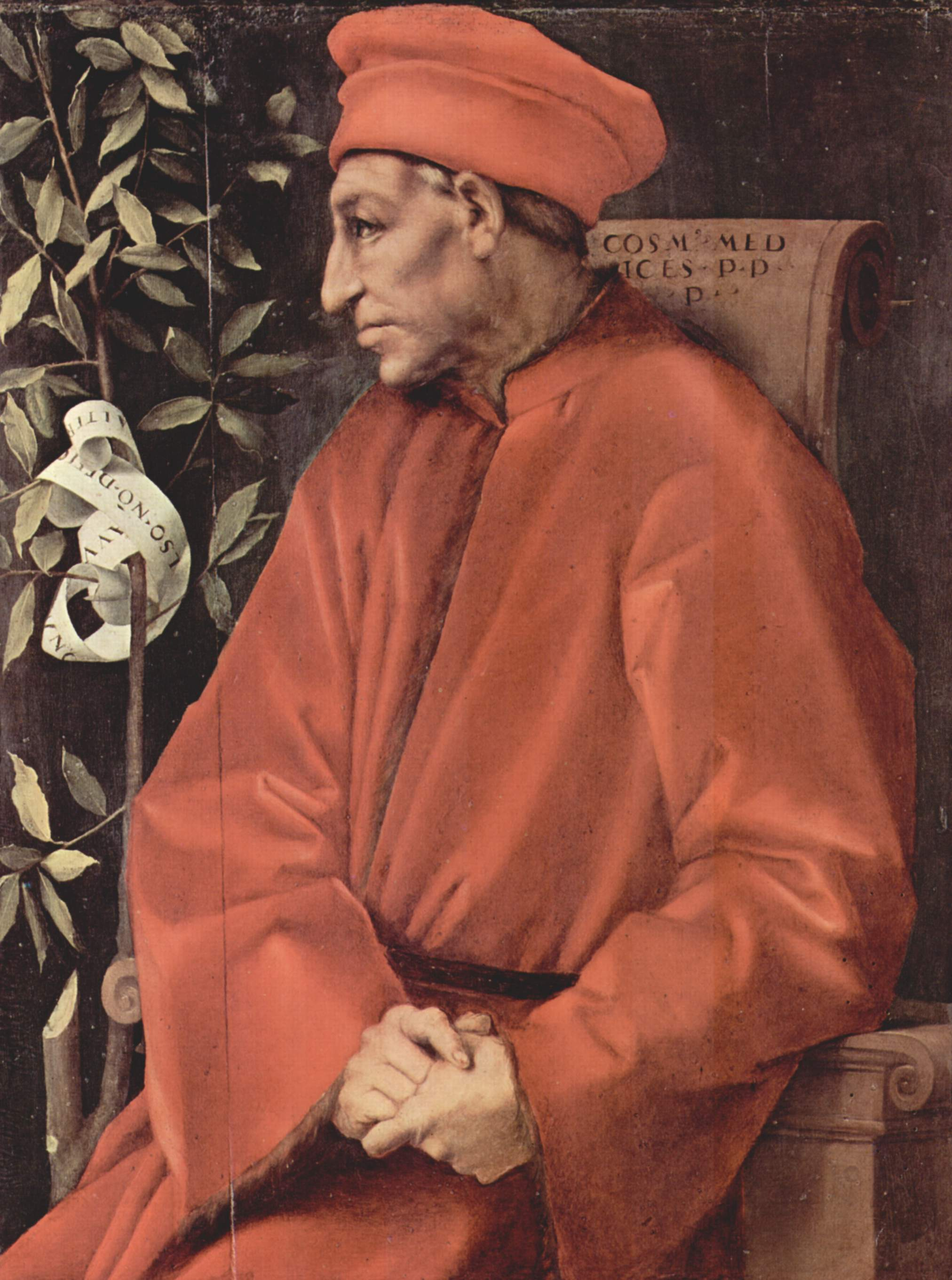 The laurel branch is a traditional Medici emblem.